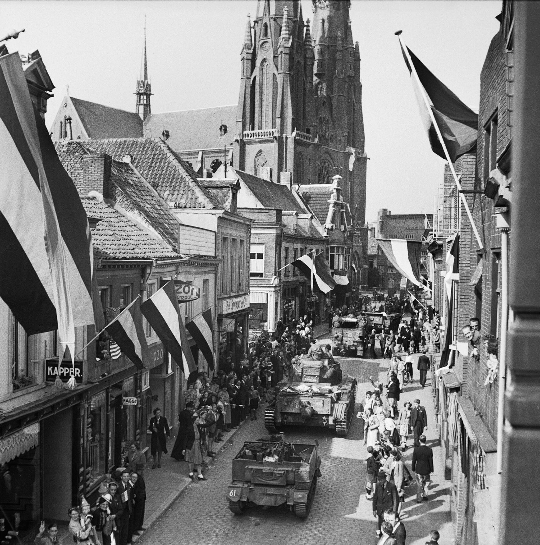 Cheering crowds line the streets as Cromwell tanks of 2nd Welsh Guards enter Eindhoven in Holland, 19 September 1944. Eindhoven 17 - 18 September 1944: The people of Eindhoven line the streets of the town to watch armoured vehicles of British XXX Corps pass through. The 101st (US) Airborne Division had captured the town on the previous day.